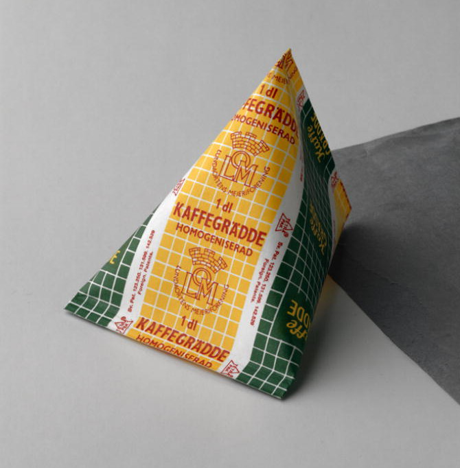 The first 100 ml Tetra Classic package for cream. For reference: HI10017. The Swedish label says "1 deciliter homogenized coffee-cream". The text in the logo says "The Lindaorten's Agricultural Cooperative". The fine print on white background denotes legal information regarding the Tetra Pak patent.